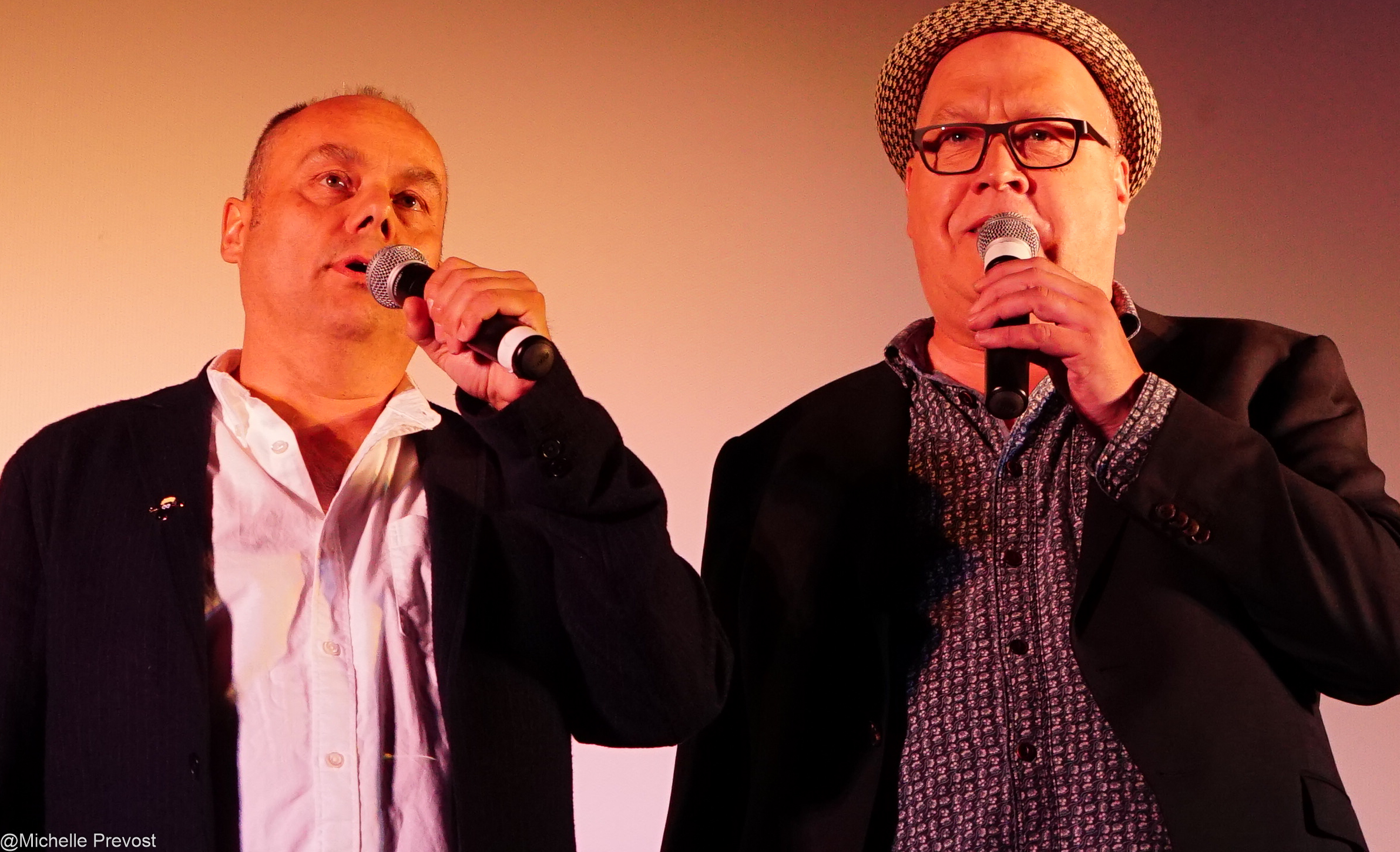 Mark Burton and Richard Starzak, writers and directors of Shaun the Sheep Movie, promoting the film at the San Francisco Film Society